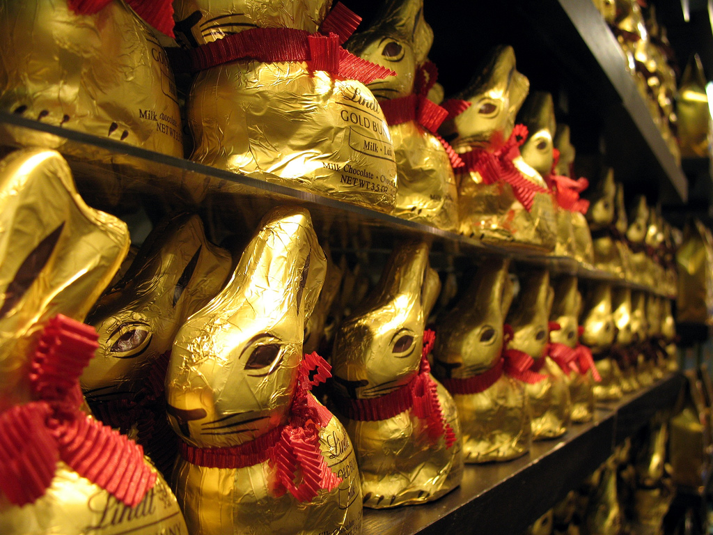 Display of Lindt chocolate bunnies